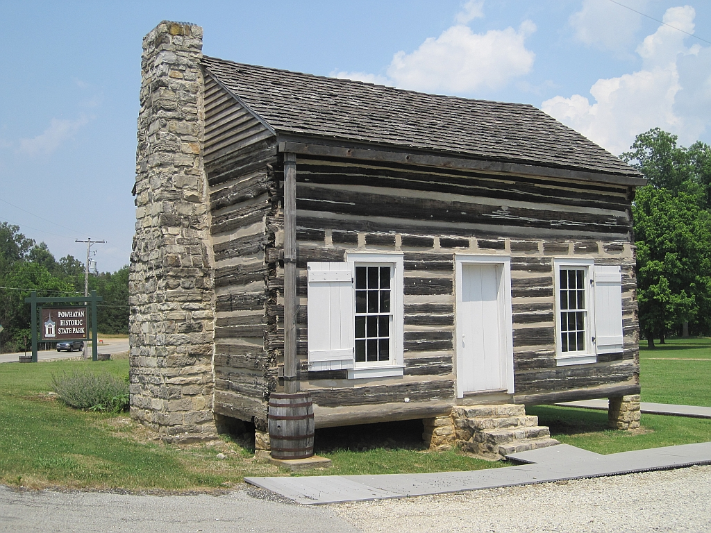 Ficklin-Imboden House, Powhatan Historic State Park, Powhatan, Arkansas.